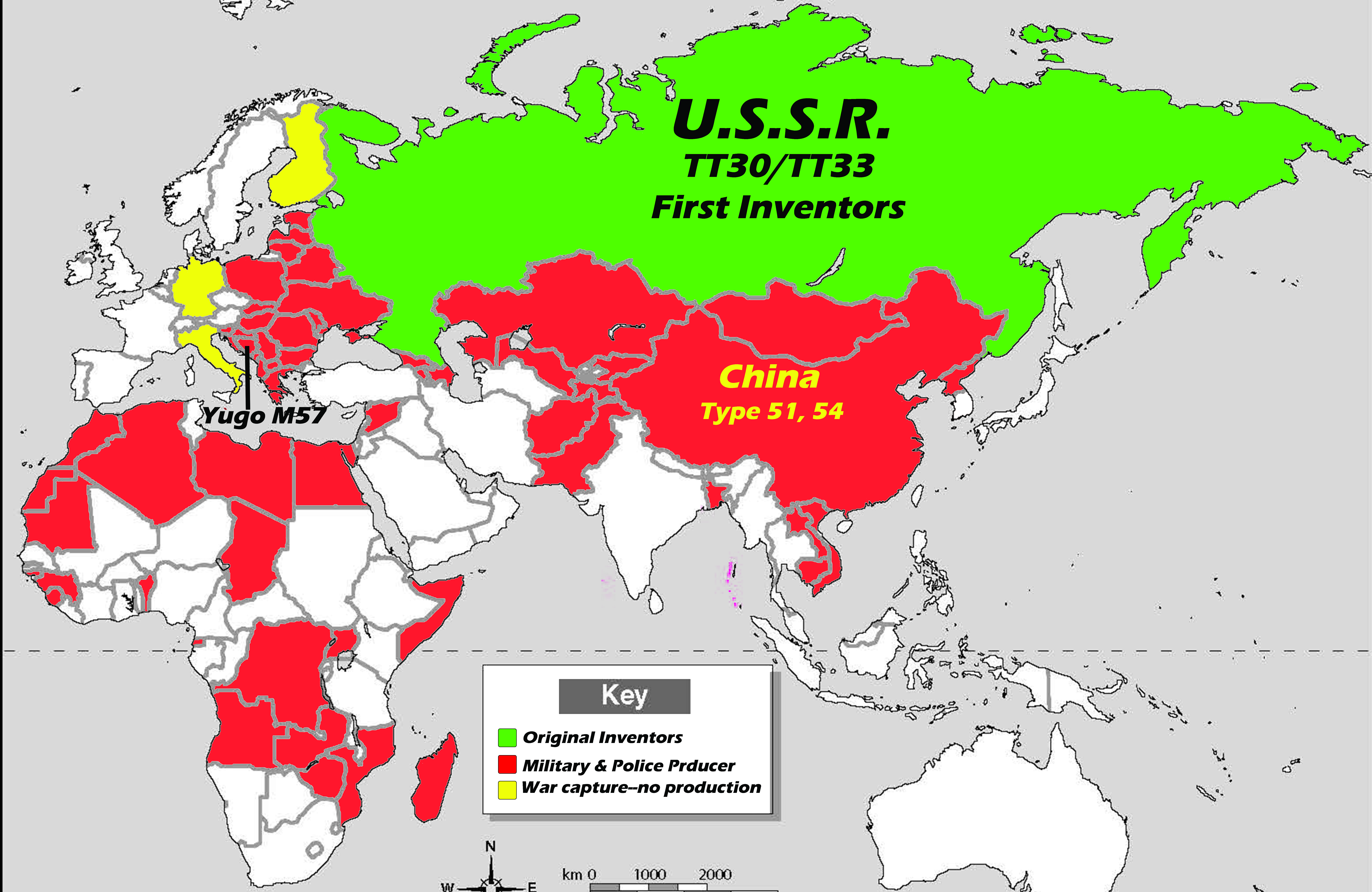 The Tokarev pistol and its variants are perhaps the most prolific pistols around the world. This map shows which countries produce the pistol and which officially used them in various military conflicts.